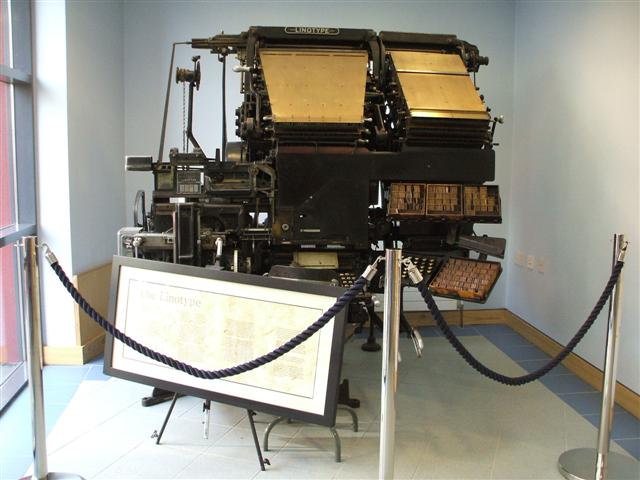 The lino-type machine, Ulster Herald, Omagh. How it used to be done in the good old days, this machine is displayed in the reception area of this established newspaper in Omagh 103203